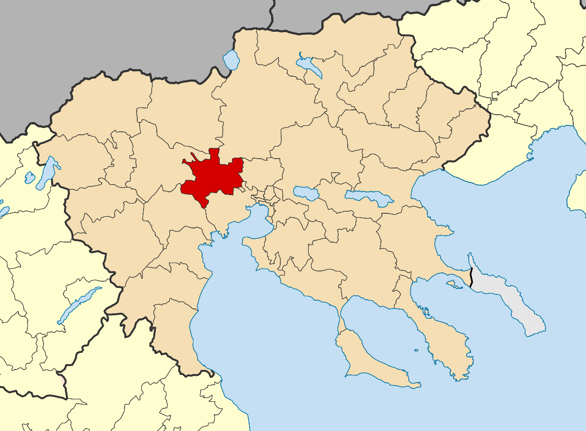 Locator map for Chalkidona municipality in Greek region Central Macedonia (2011)